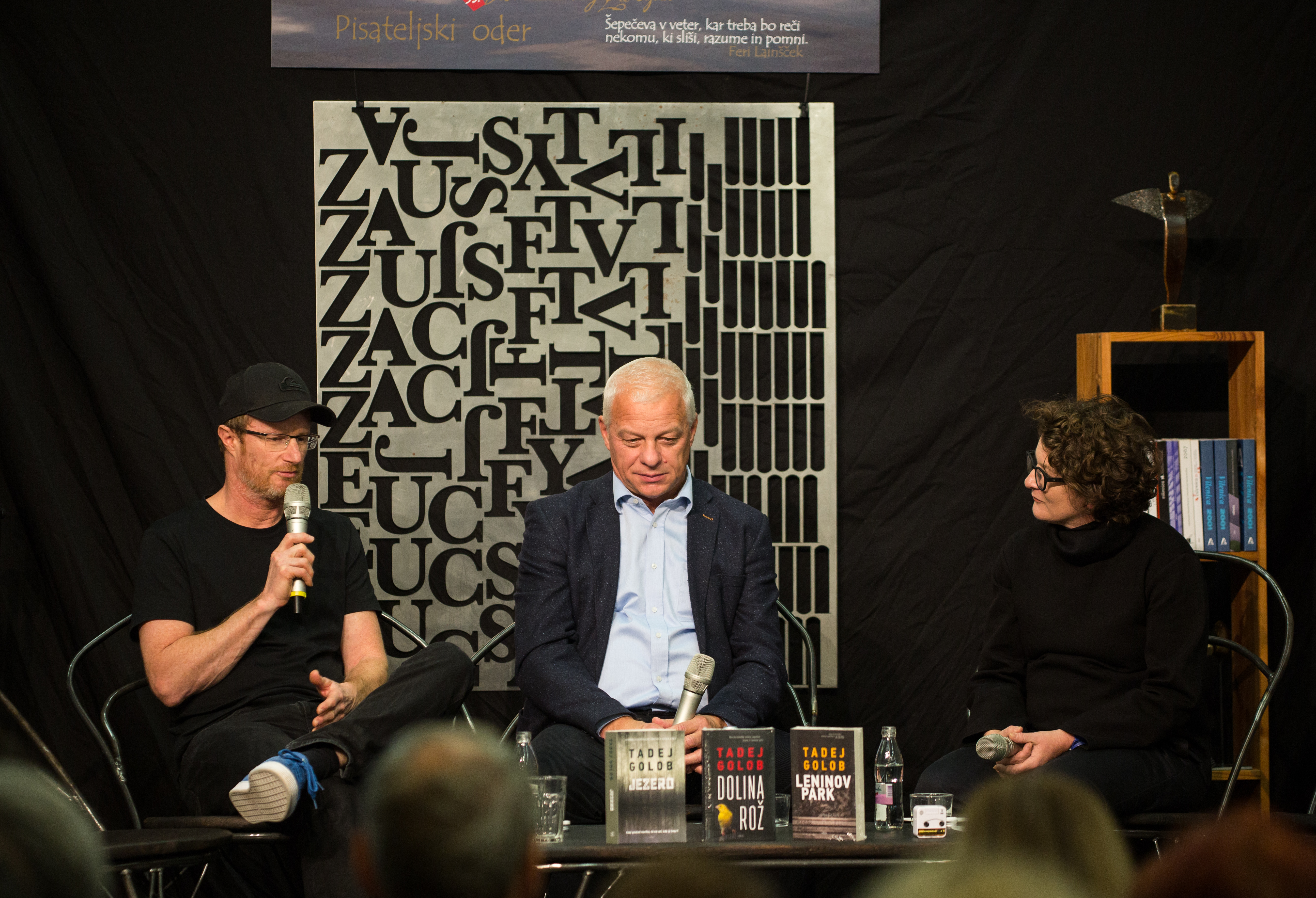 Authors Tadej Golob and Drago Kos during a panel at the Slovenian book fair 2019 in Ljubljana.